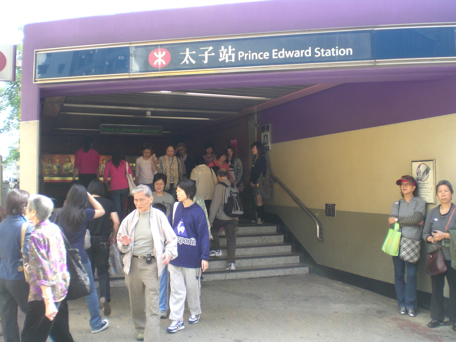 太子站A 站, 近旺角警署位於彌敦道與運動場道交界, Nathan Road, Prince Edward, Kowloon, Hong Kong.